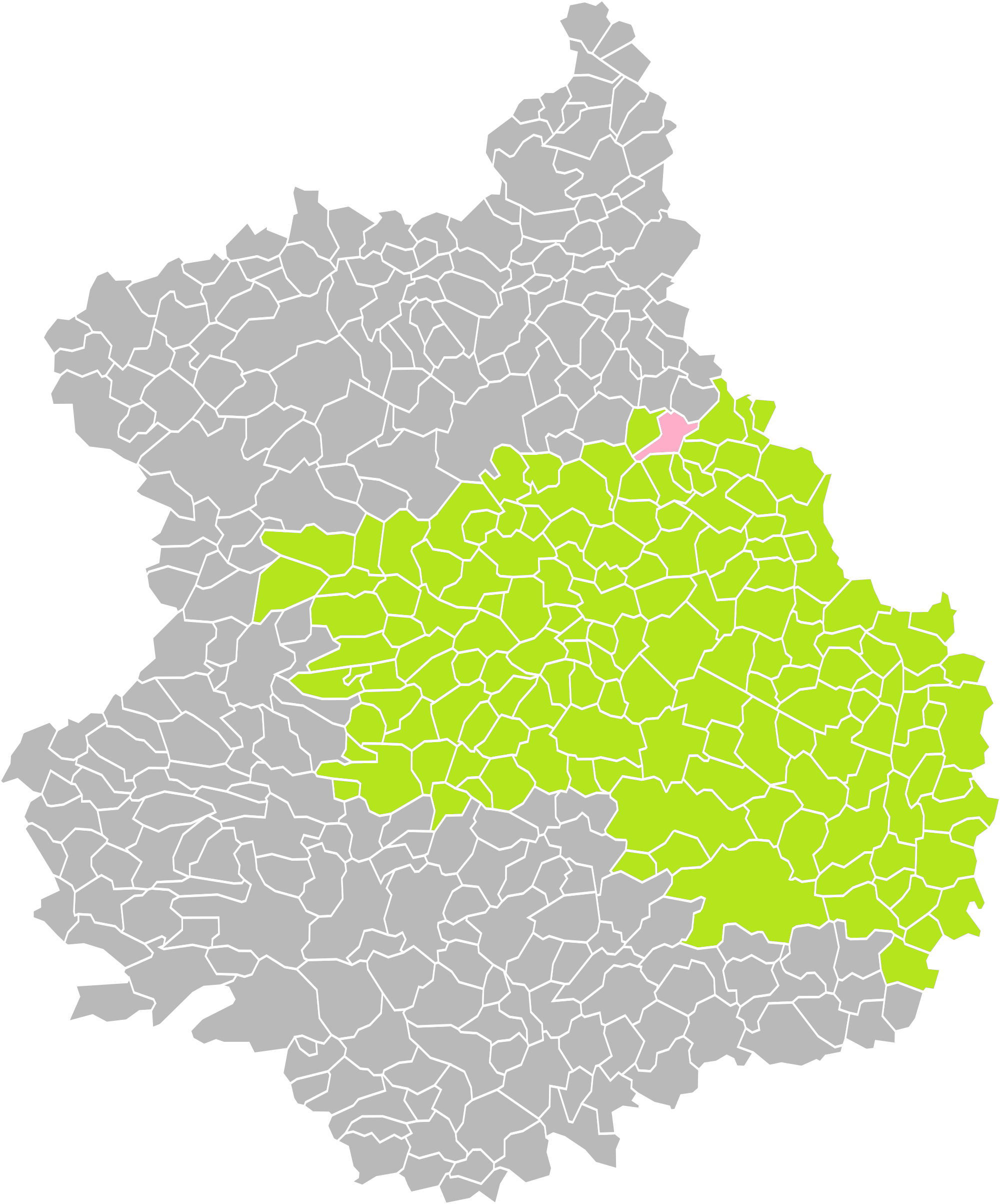 Location of the commune of Maintenon in the arrondissement of Chartres (Eure-et-Loir)